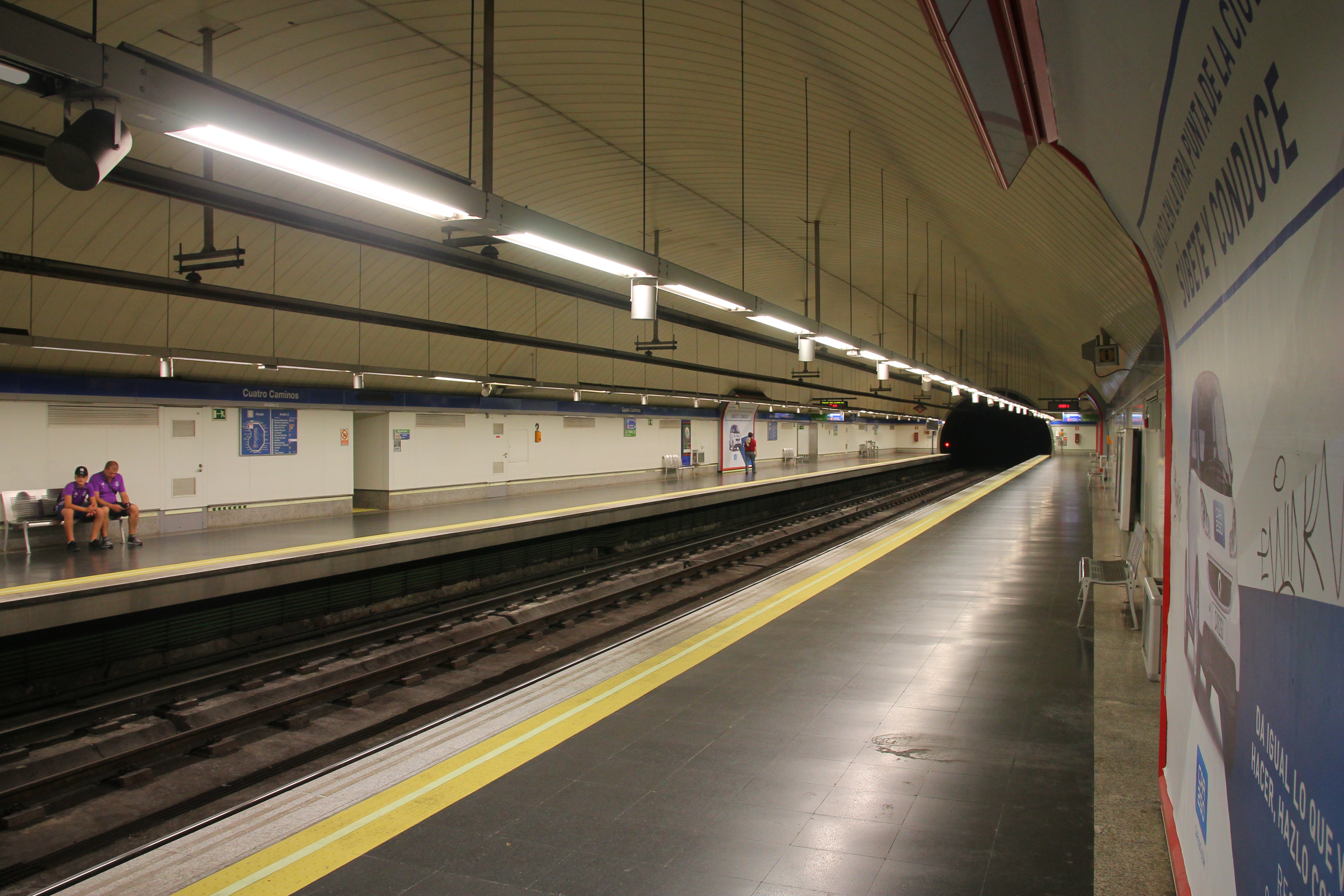 Platform of the Cuatro Caminos metro station, line 2, Madrid